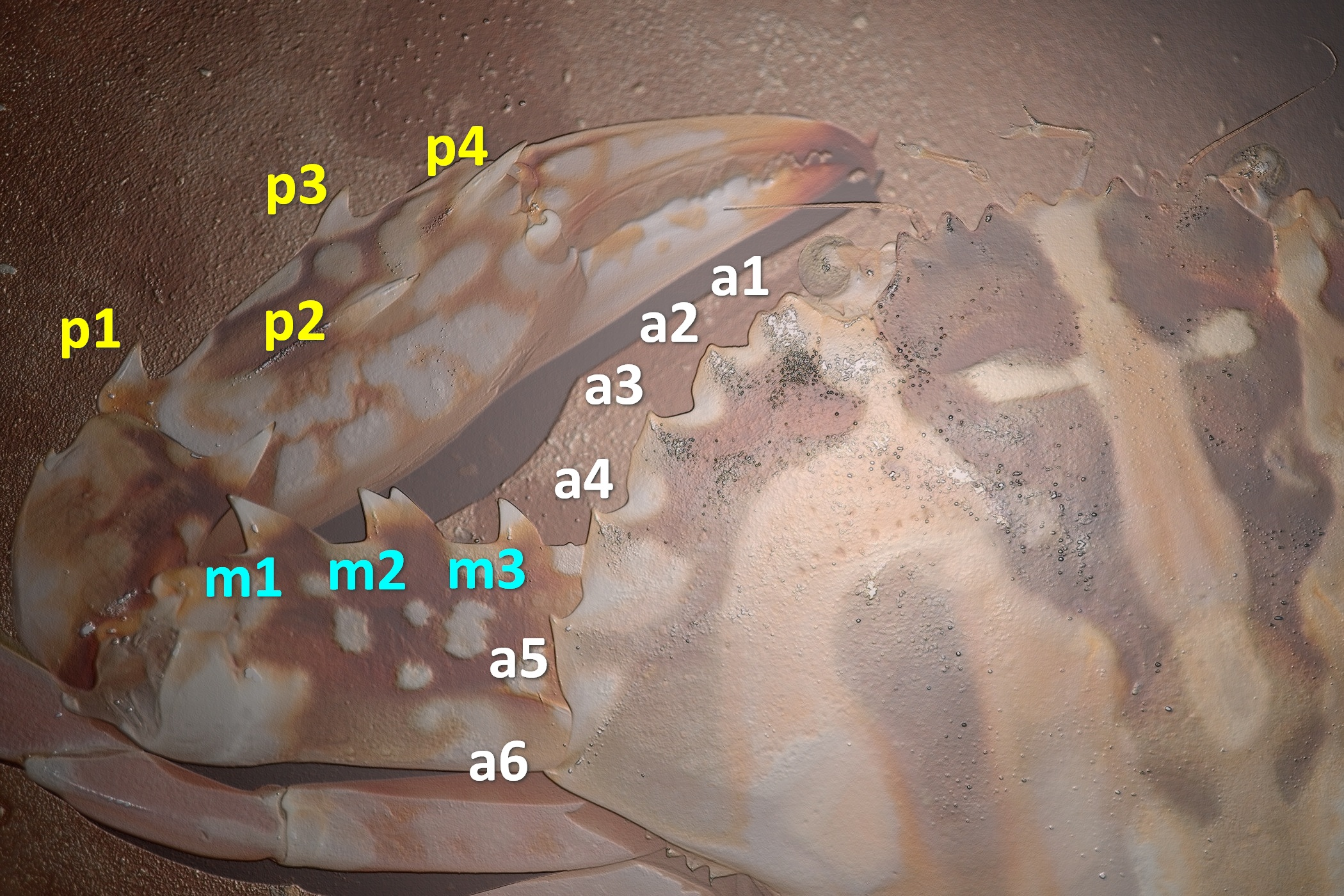 Charybdis feriata; male, 101mm carapace width, left side for diagnosis: a=anterolateral teeth, m=meri spines of cheliped, p=propodus spines of cheliped. From traditional market in Bogor, West Java, Indonesia.